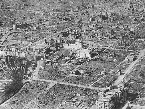 Osaka after the 1945 air raid